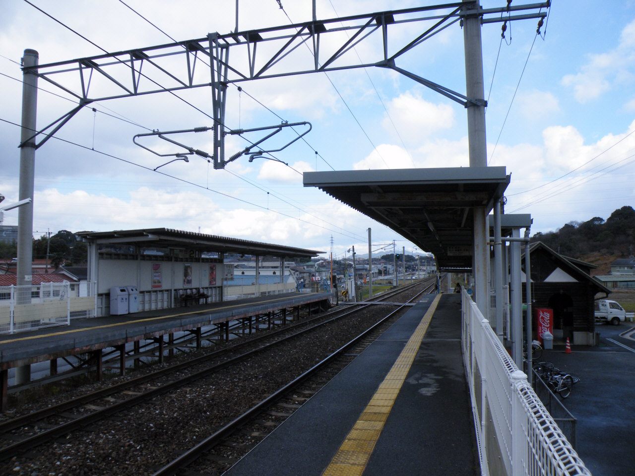 JR Kyushu Urata Station (Chikuho Main Line aka Fukuhoku-Yutaka Line)